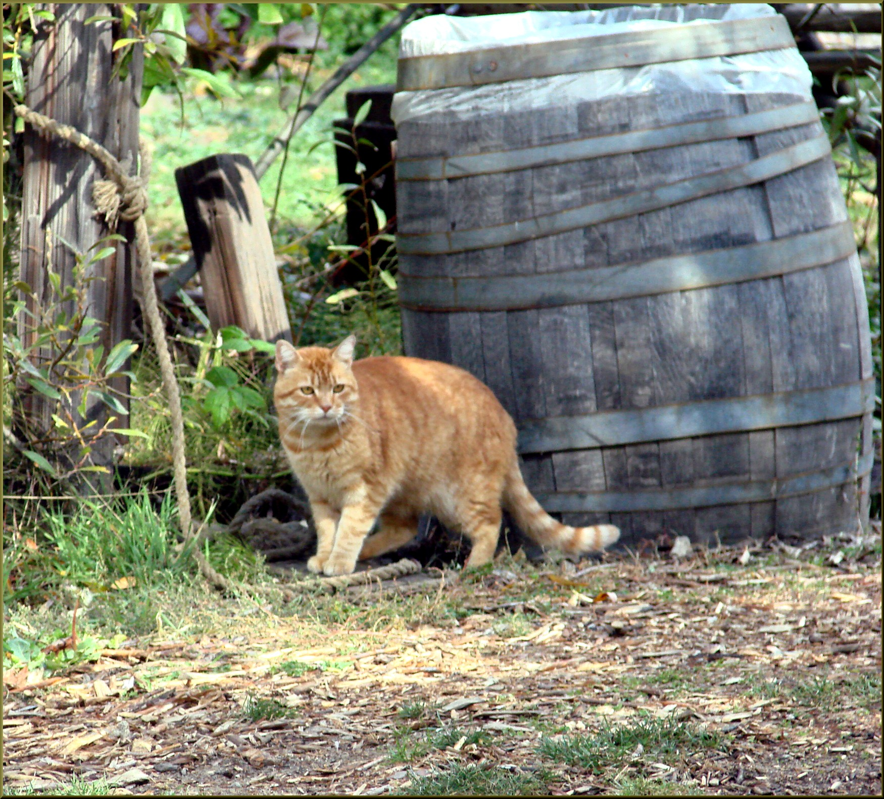 (1 in a multiple picture set) This guy was walking around the farm and he looked none to happy to have all the tourists invading his domain. We 'talked' to it, and got a few low mutterings from it. "Well," kiddo, "just wait until 6:00 and we'll all be gone." I remember on my grandparents' farm, that they had a bunch of 'barn cats' who patrolled and kept down the vermin. That was probably this guy's job also.